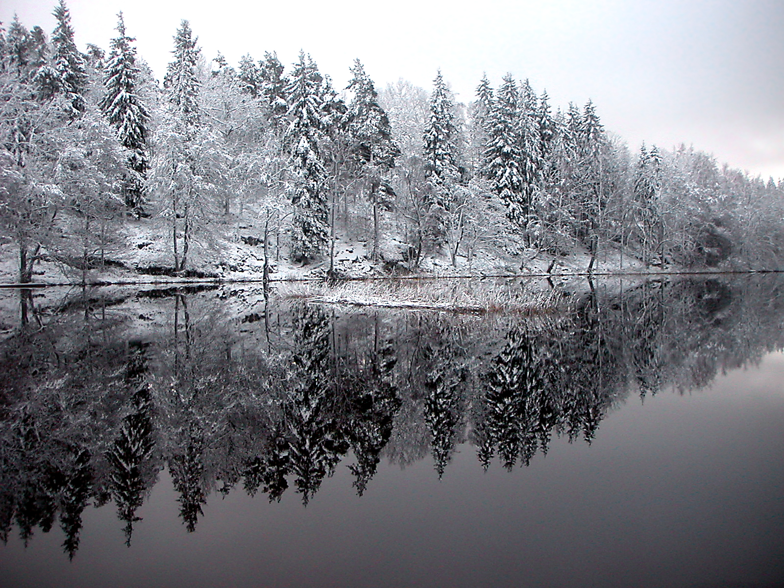 Lake Lilla Färgen in Alingsås municipality, Sweden.